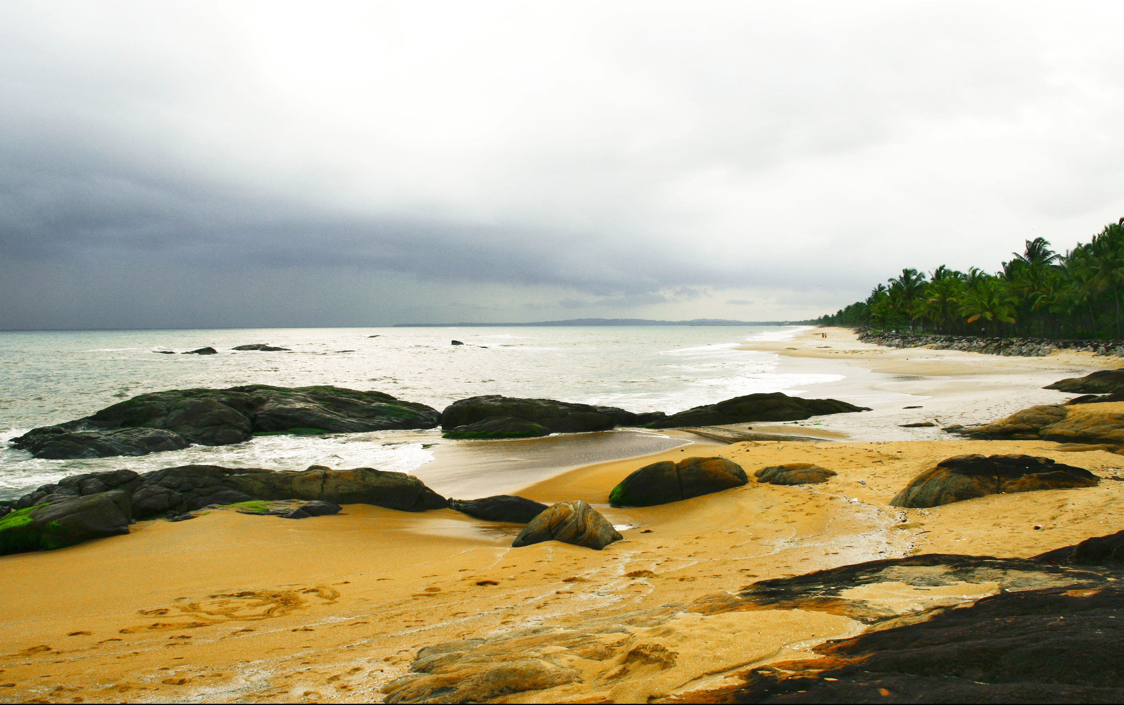 For the people of Kozhikode, this pleasant stretch of rock studded beach is Kappakkadavu. To the tourist it is one of the most charming of Kerala's beaches. Kappad finds mention in history and geography texts as the gateway to the Malabar coast. Here, 501 years ago, 170 men led by the Portuguese navigator Vasco da Gama (1460-1524) sailed in and stepped into Kerala to create a new chapter in history. The story of a long and tumultuous socio-political relationship between India and Europe. It was the spices and wealth of Malabar that first brought the Arabs, the Phoenicans, the Greeks, the Romans, the Portuguese, the Dutch and the English to Kerala. Kappad has witnessed many such landings.